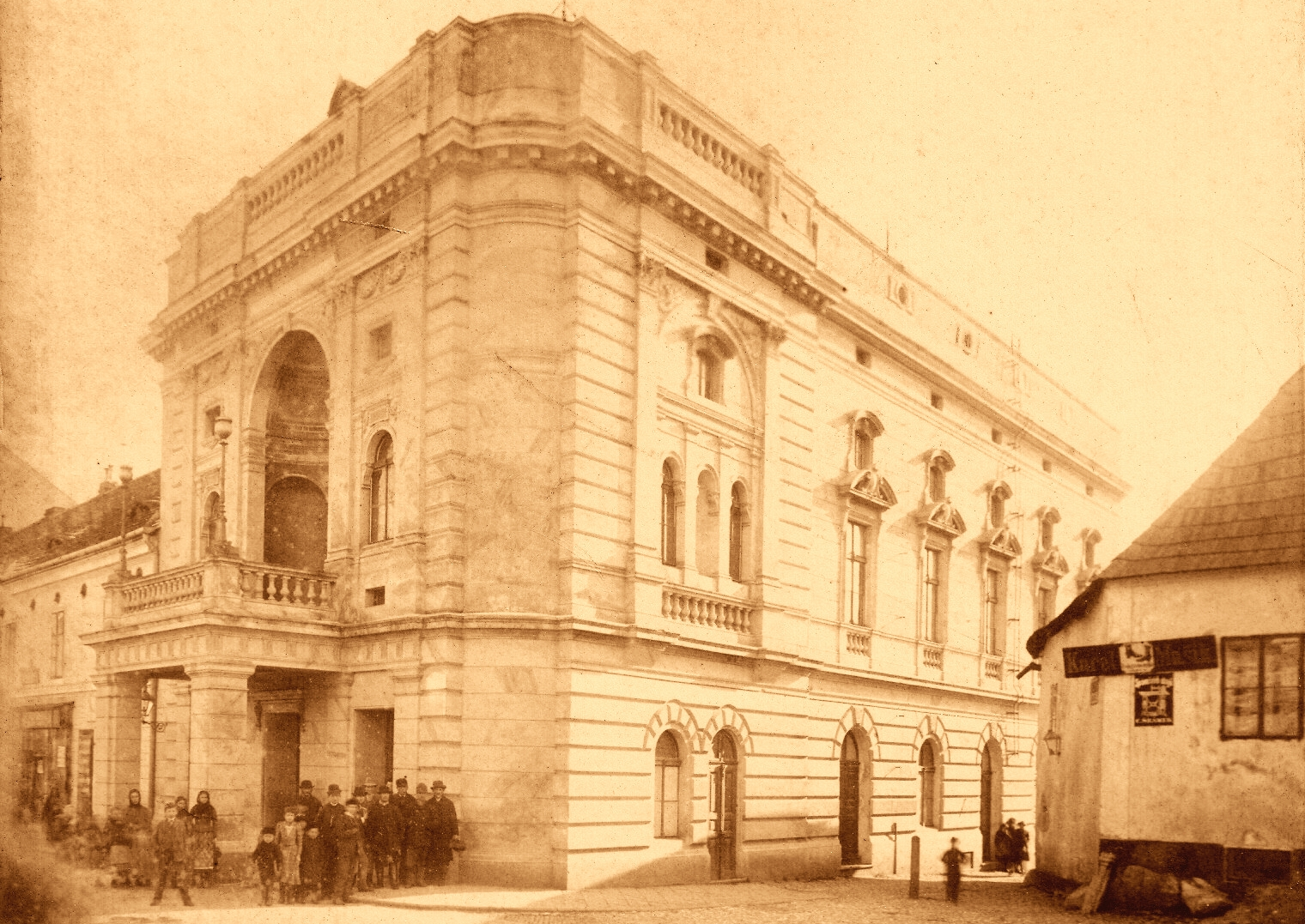 Theatre Tabor old photo